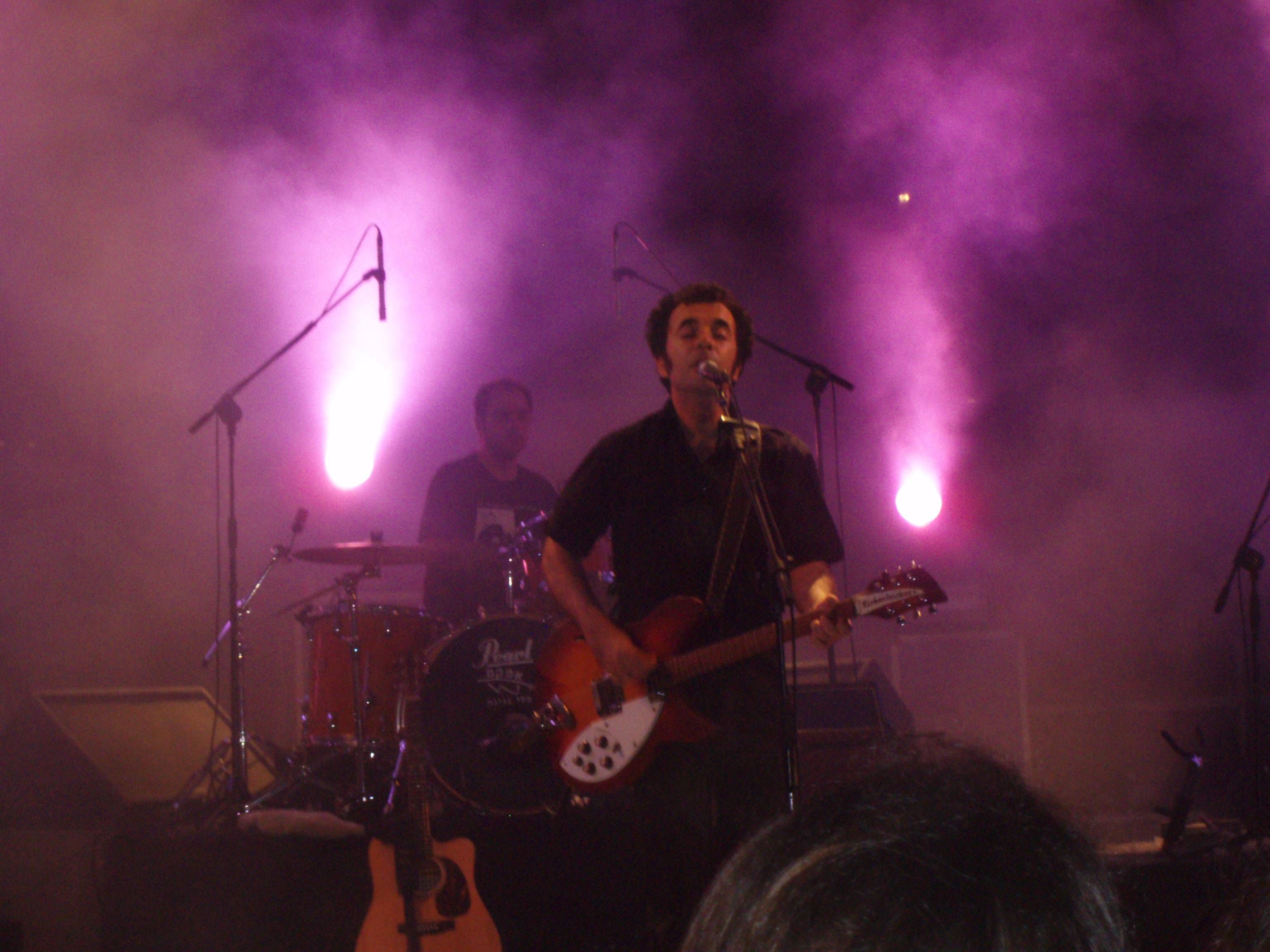 Yoram Chazan - a singer-songwriter from the band Knesiyat Hasekhel